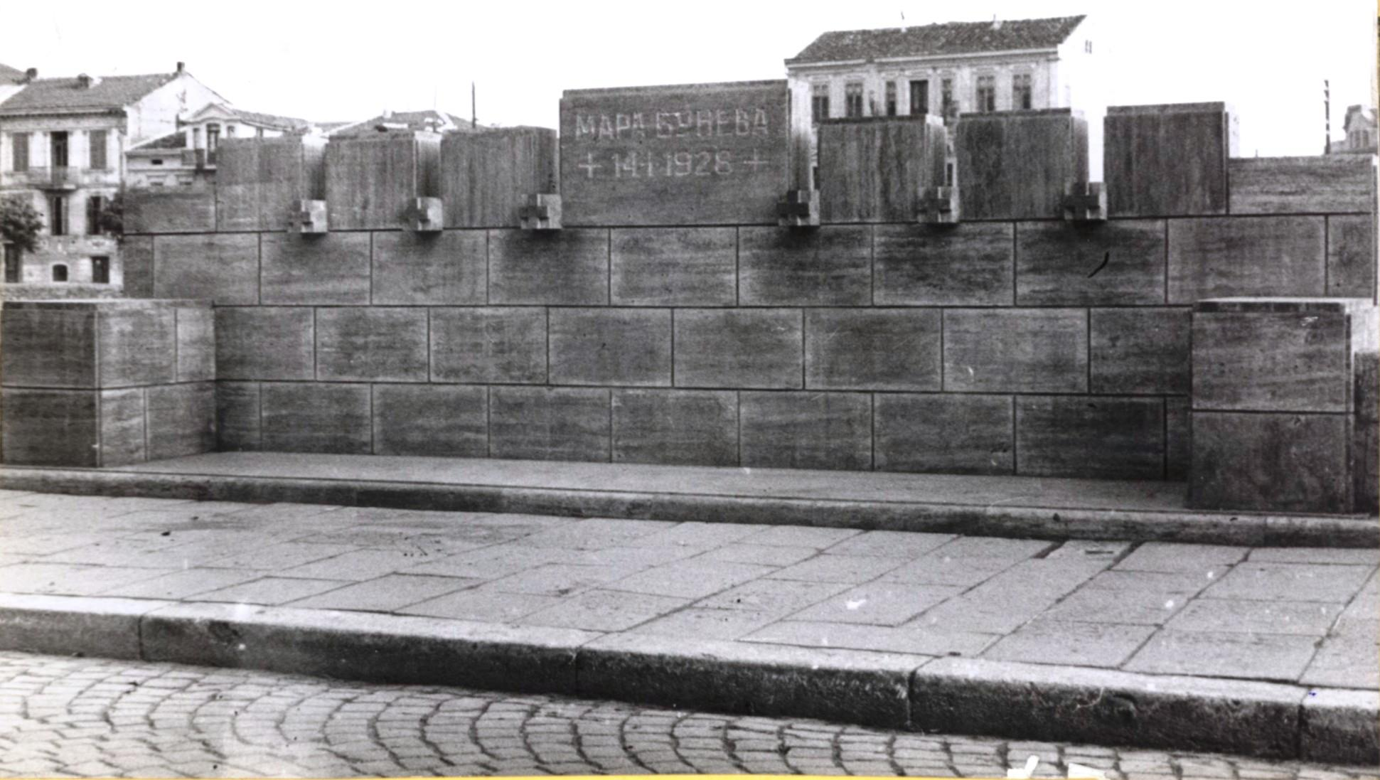 During the Second World War when Bulgaria annexed the Vardar Macedonia, a commemoration plate was mounted on the death place of Mara Buneva in Skopje.